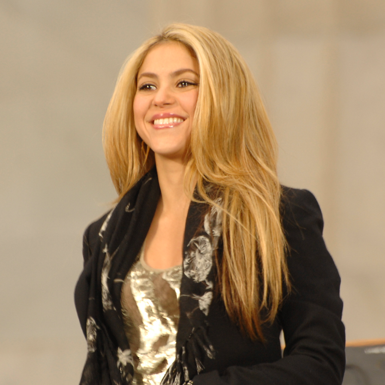 Shakira at the inauguration of Barack Obama